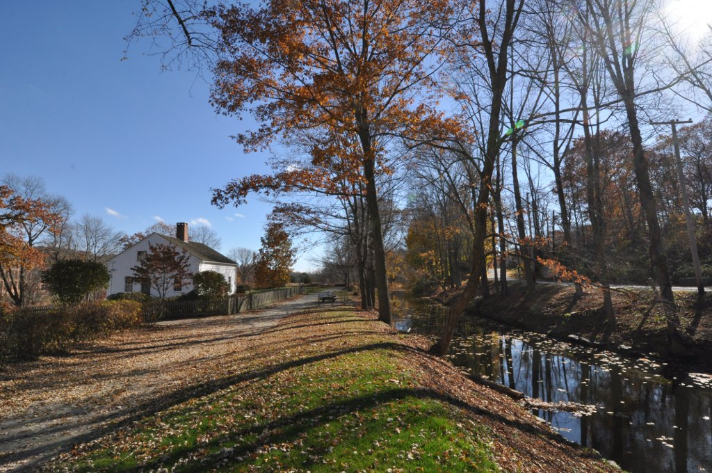 Old Ashton Historic District, Lincoln, Rhode Island. The Kelley House (a mill manager's house, now a museum) is on the left, the Blackstone Canal is to the right.